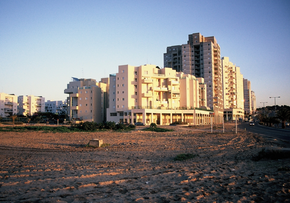 Ashkelon, January 2007Ashqelon